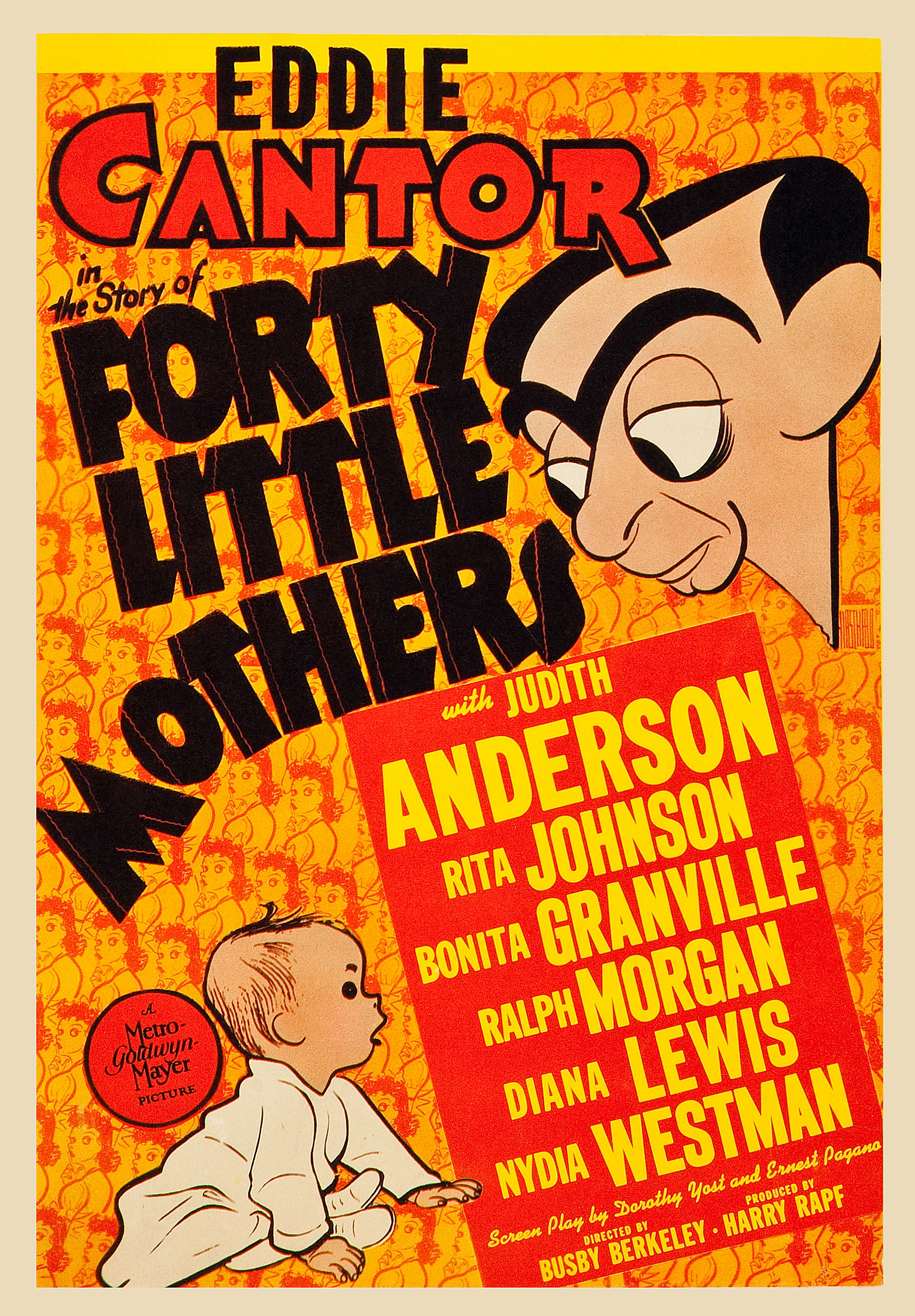 Film poster/lobby card for Forty Little Mothers (1940)